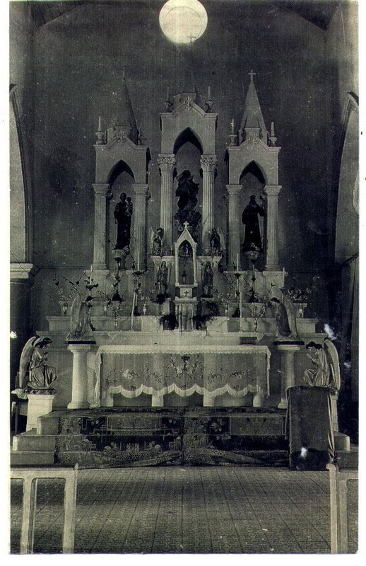 Altar of the Church of Pau dos Ferros, during the XIX century